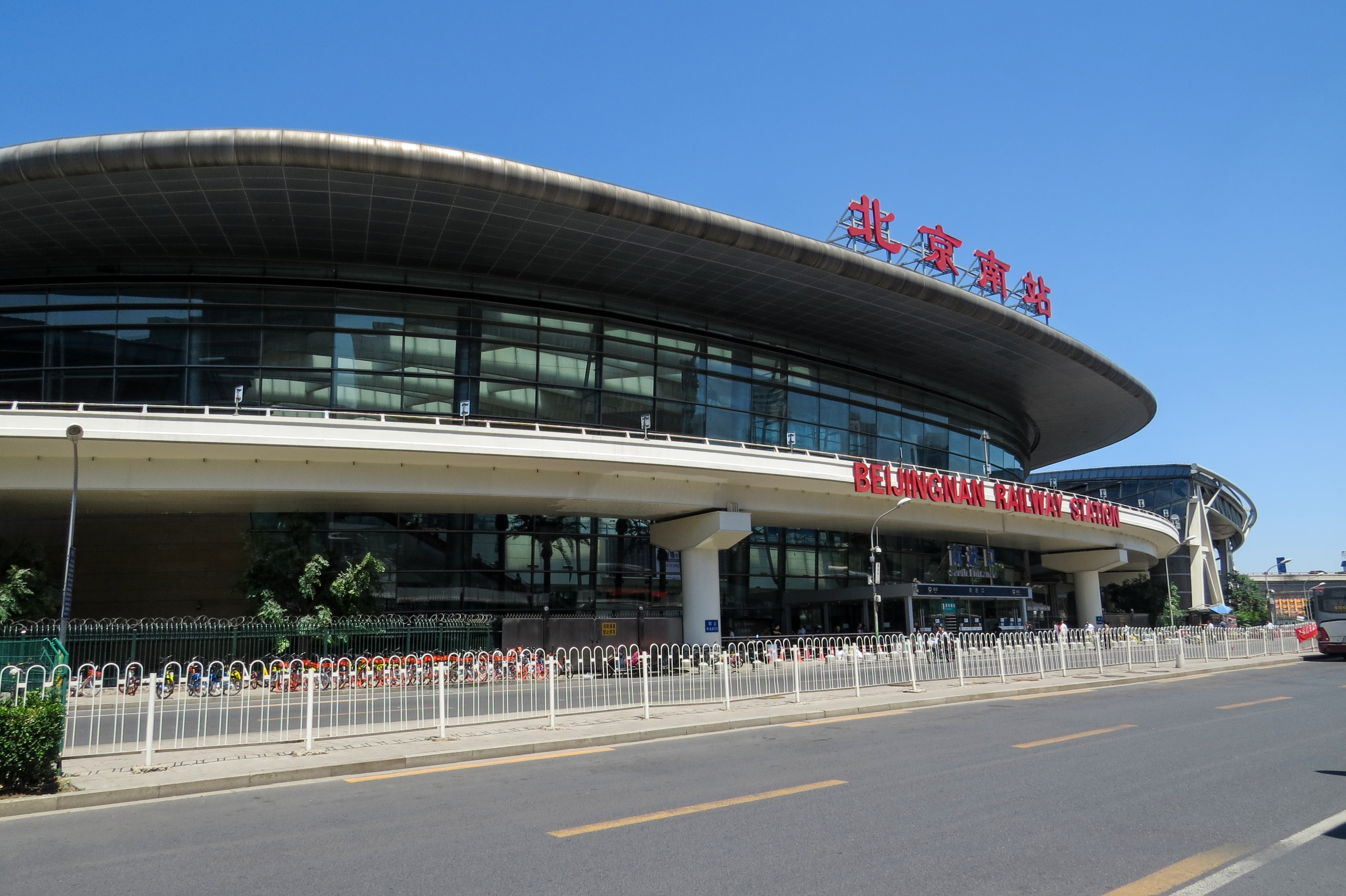 When shared bikes invaded the "mall south"...